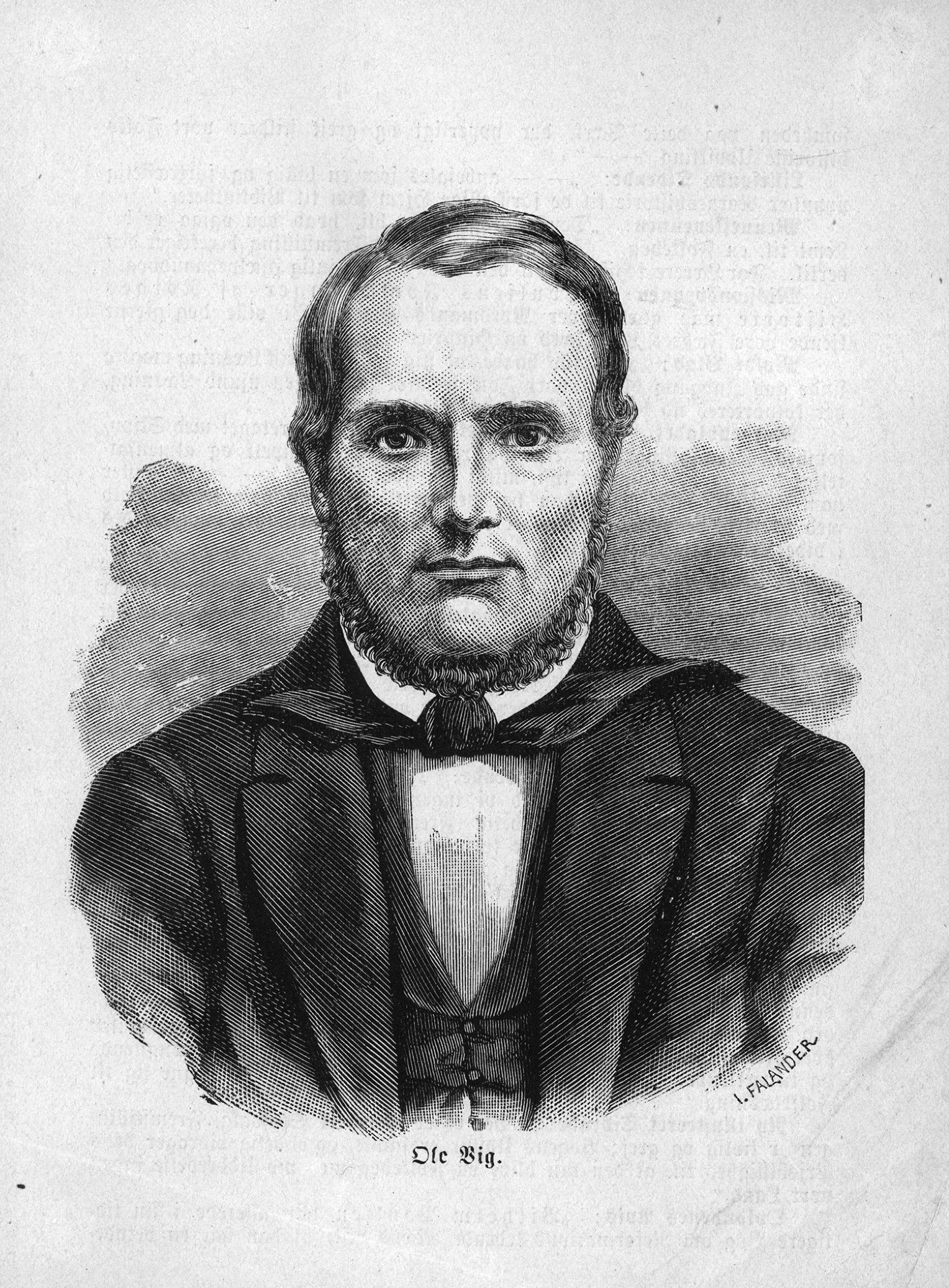 Litography of Ole Vig.